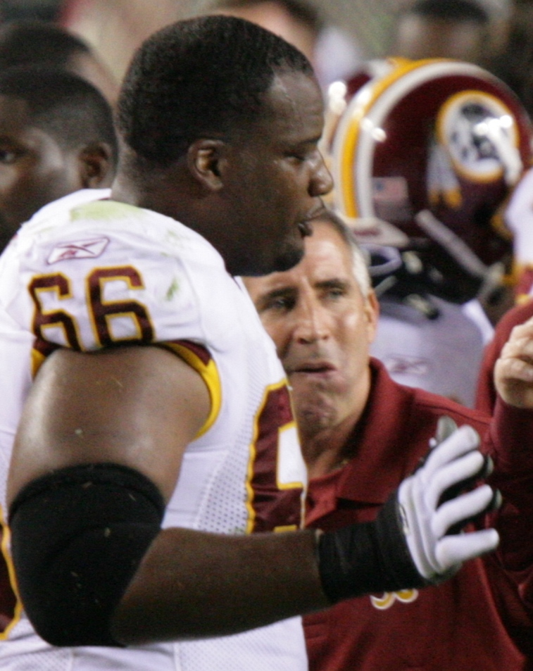 Derrick Dockery speaks with a coach of the Washington Redskins during a game.